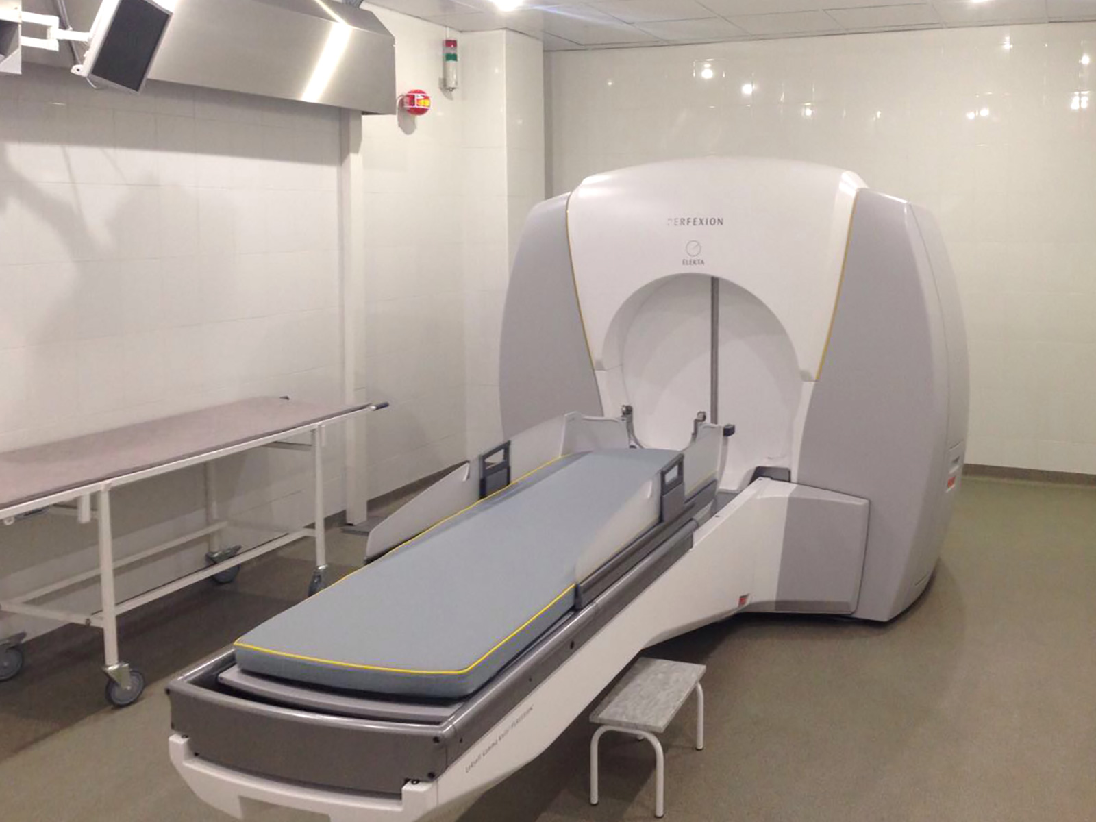 Elekta's Leksell Gamma Knife Perfexion radiosurgery system at the Sklifosovsky Research Institute of Emergency Care in Moscow.